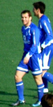 Aleksandr Kerzhakov in action for FC Dinamo Moscow